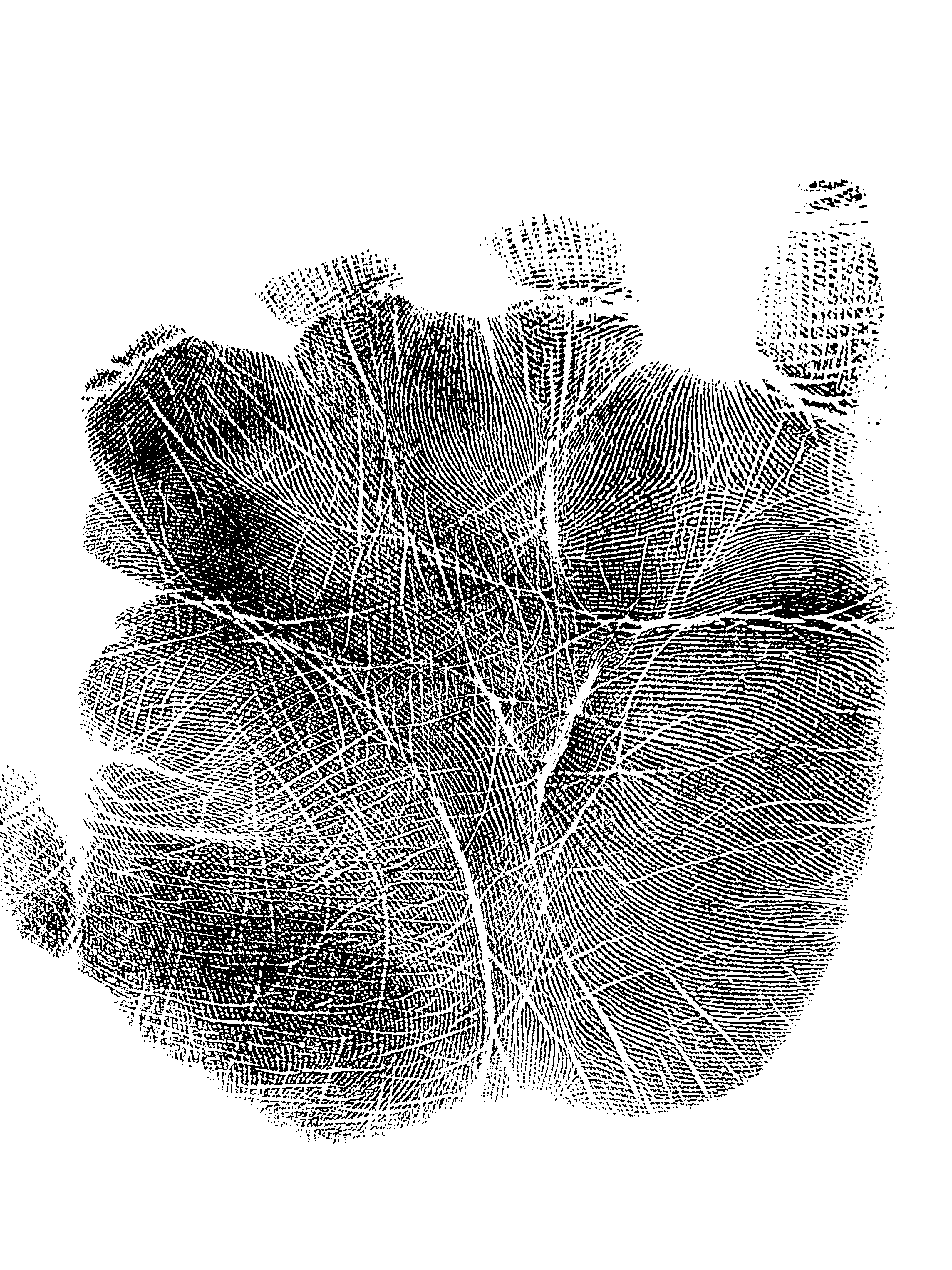 Female right palm print taken fingerprint ink